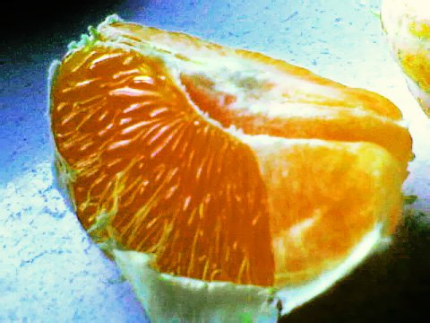 orange flesh/pulp